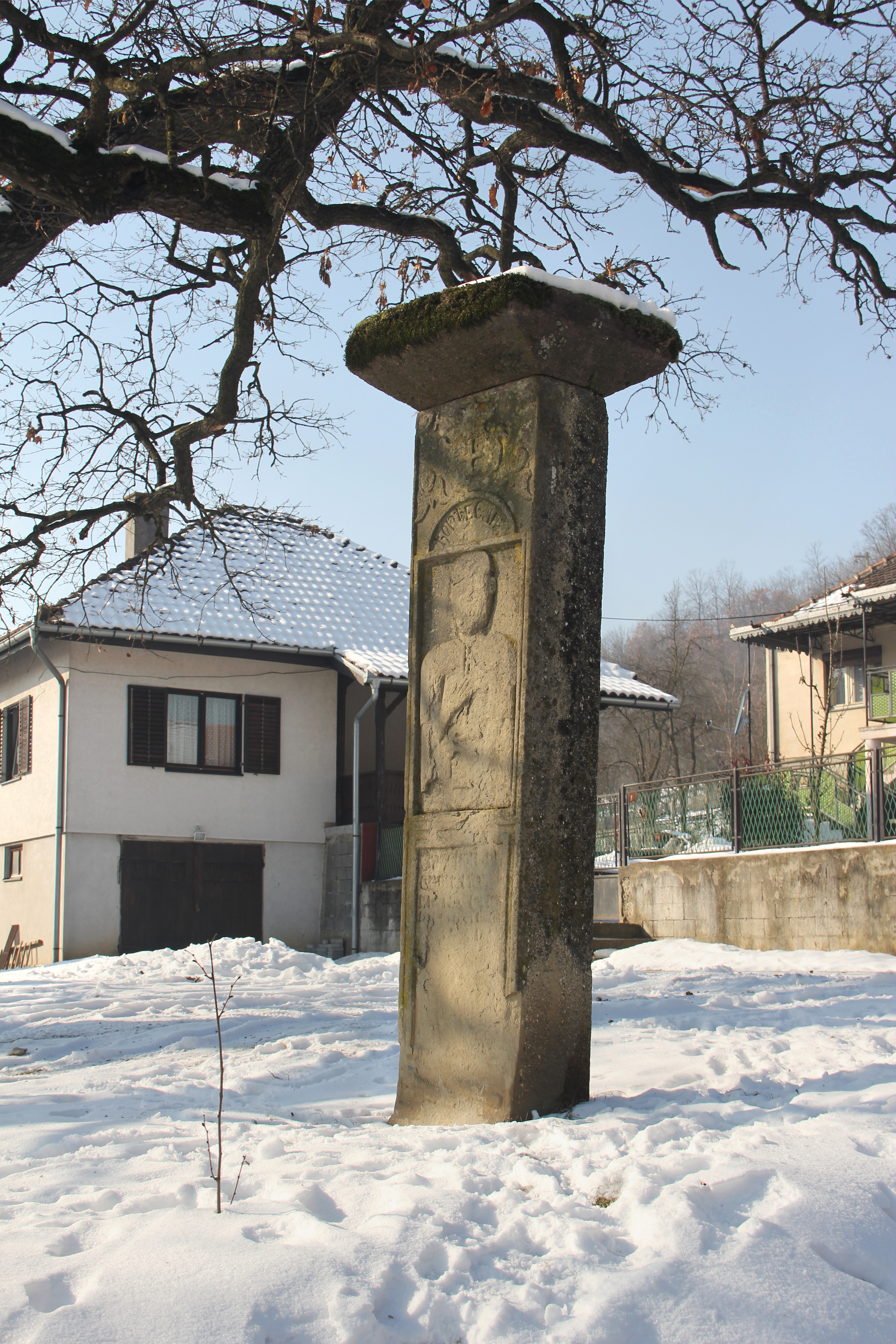 Tombstone that the innkeeper Djordje Jelic raised himself under a large oak in Brdjani village near Gornji Milanovac.